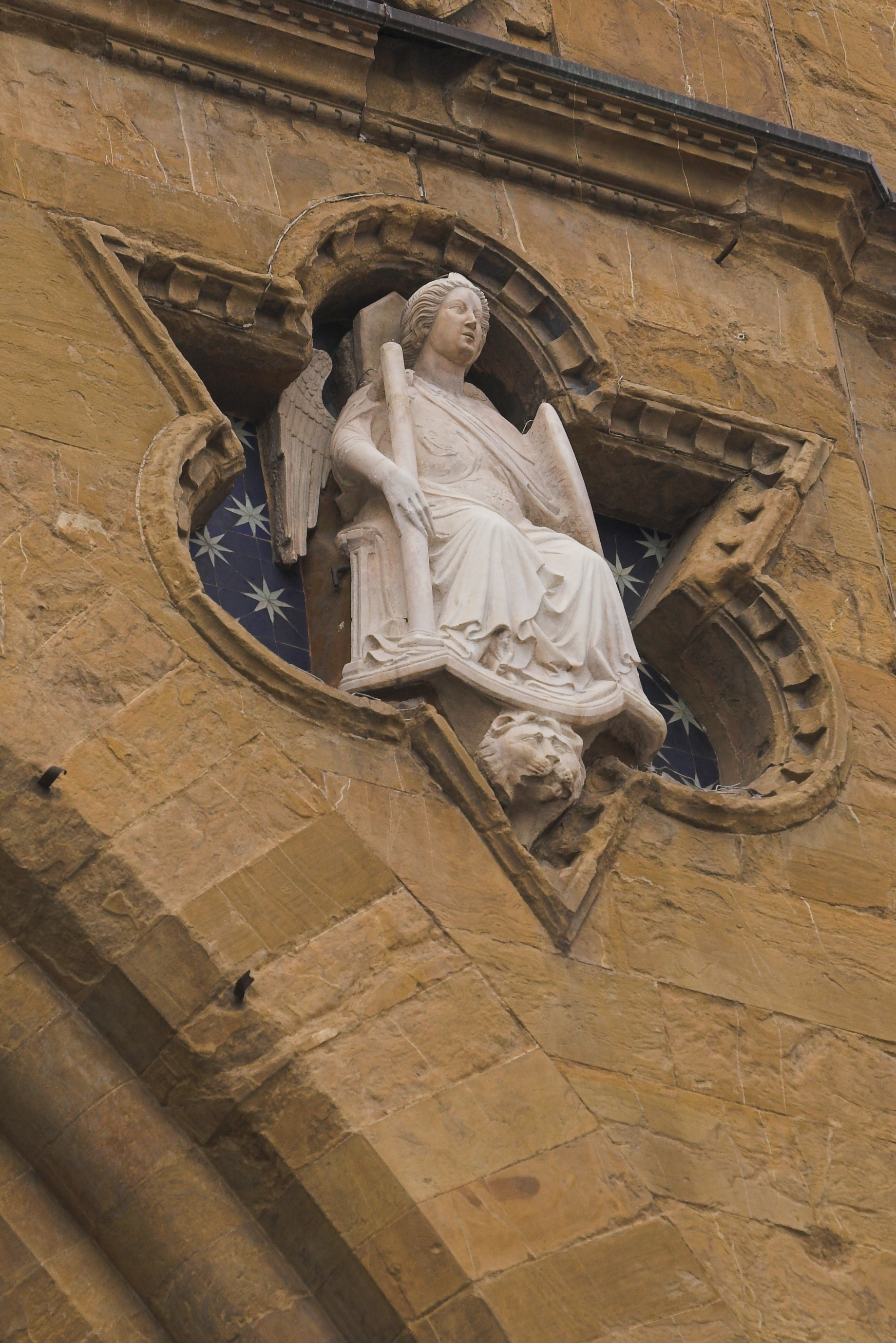 An image of Strength or Fortitude, one of the four cardinal virtues, with her column, shield, and lion.